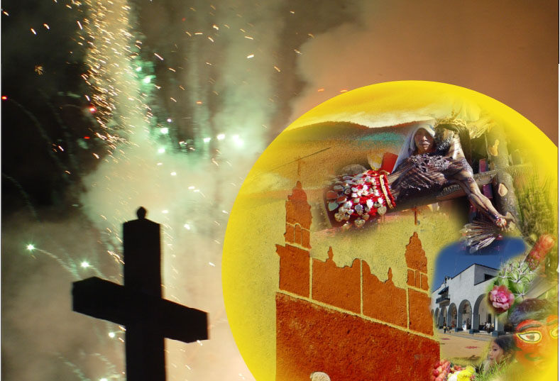 Festividad del Señor de los corazones